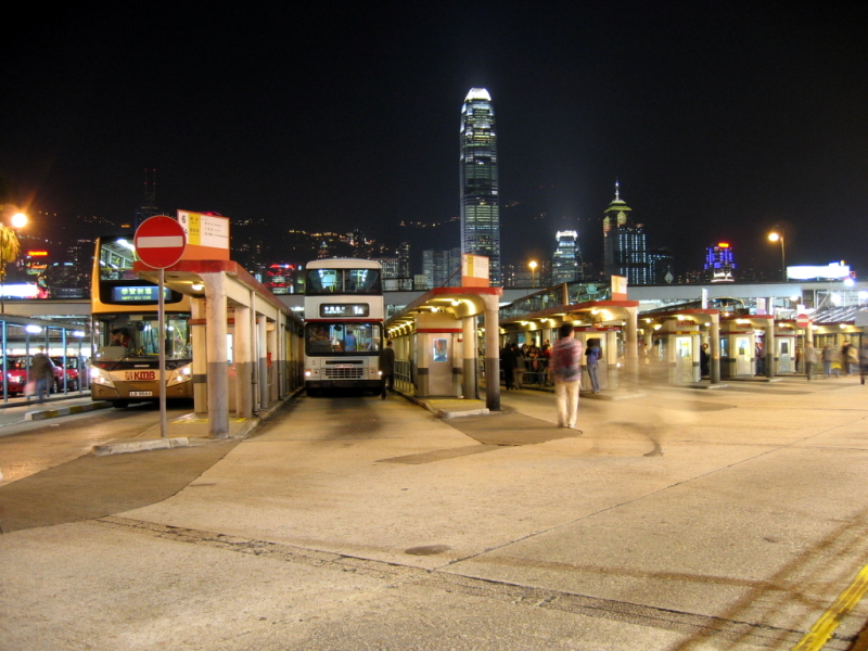 Star Ferry Bus Terminus